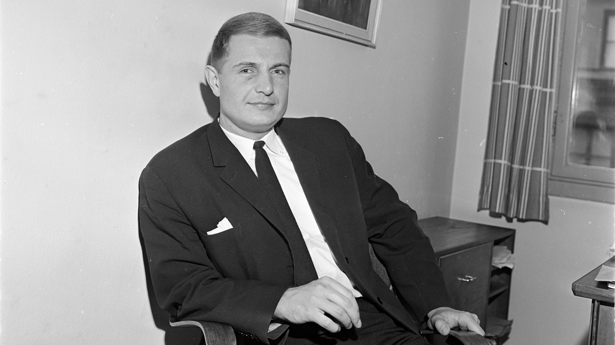 Erik Tandberg, Norwegian civil engineer and space expert